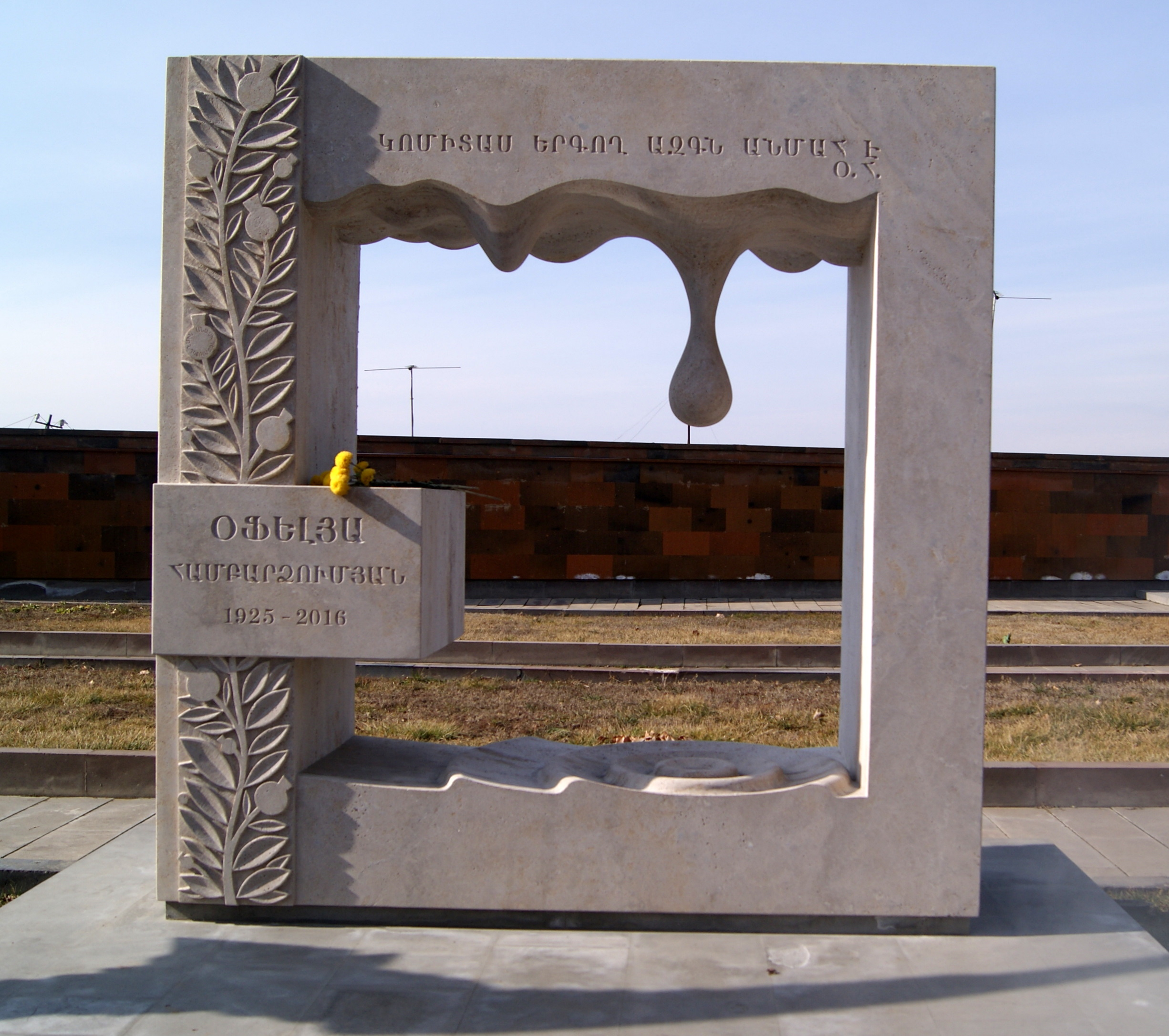 Ofelya Hambardzumyan's Memorial